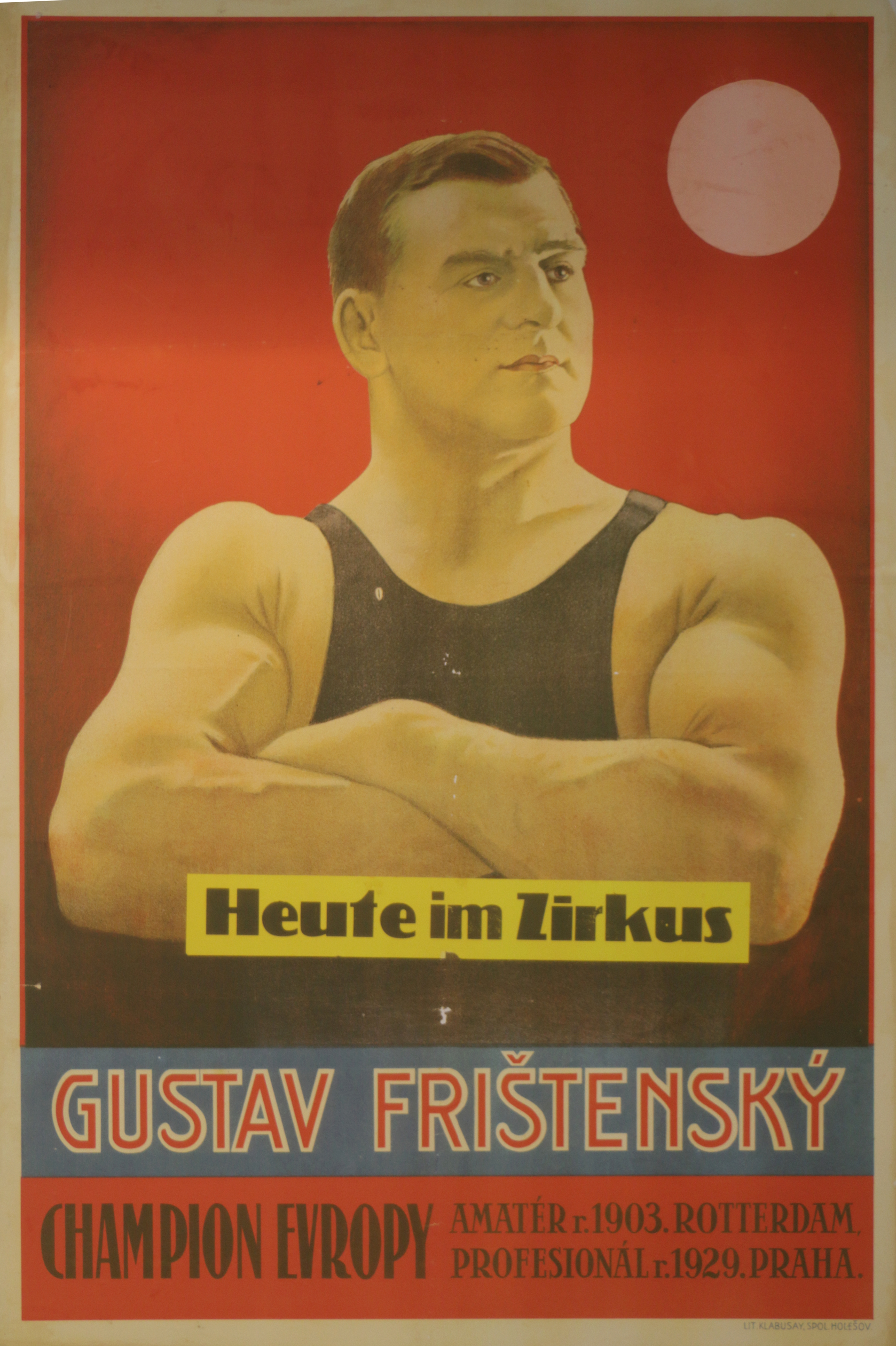 Poster of Gustav Frištenský, a Czech Greco-Roman wrestler.